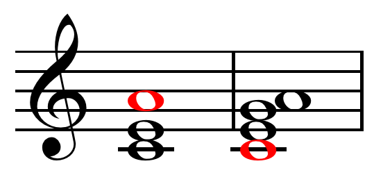 'Sixth' chords over C bass. Chord roots in red. Created by Hyacinth (talk) using Sibelius 5.